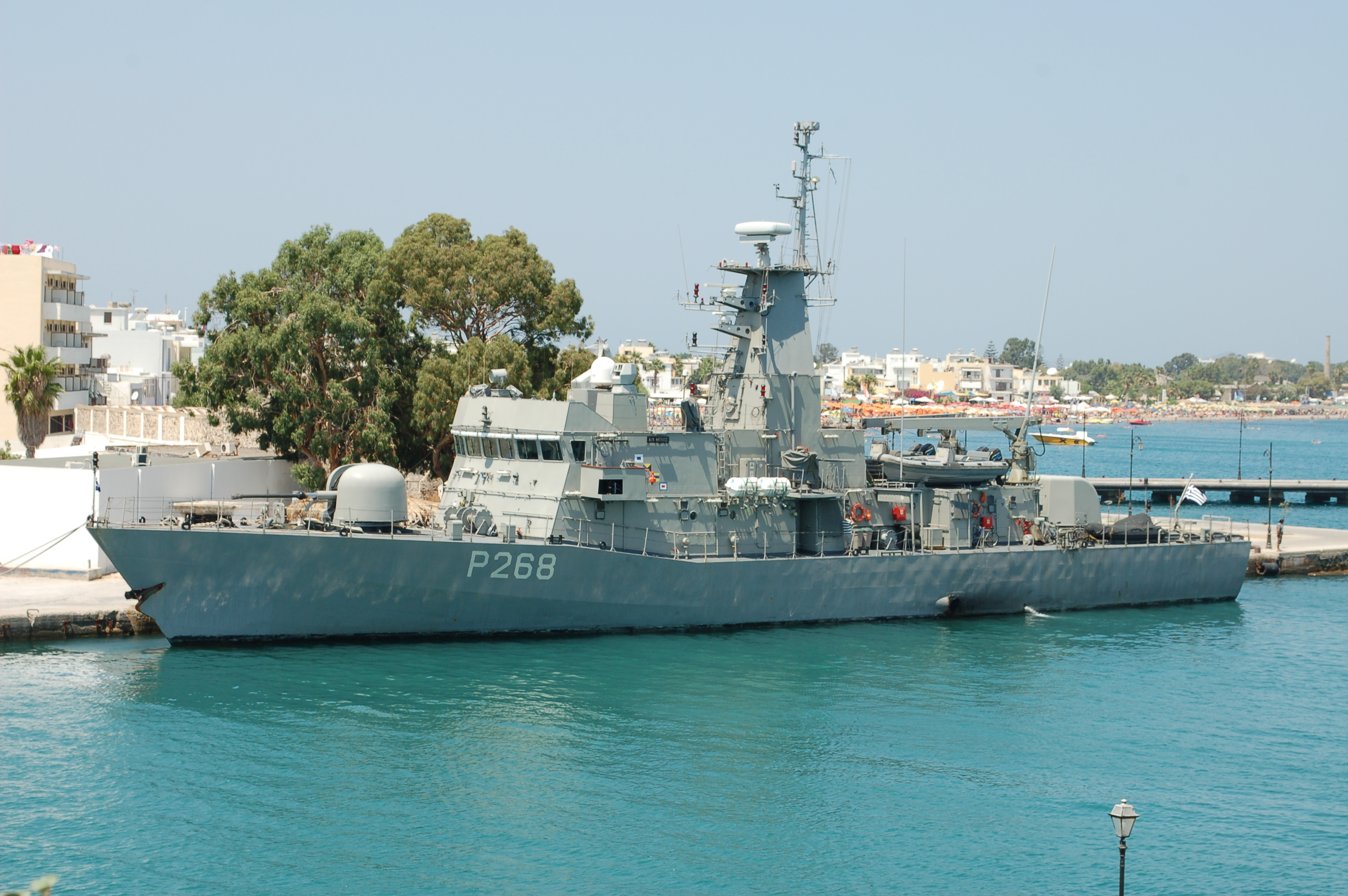 Greek Navy gunboat HS Aittitos P-268 (Osprey HSY-56A class) at the port of Kos, Greece.